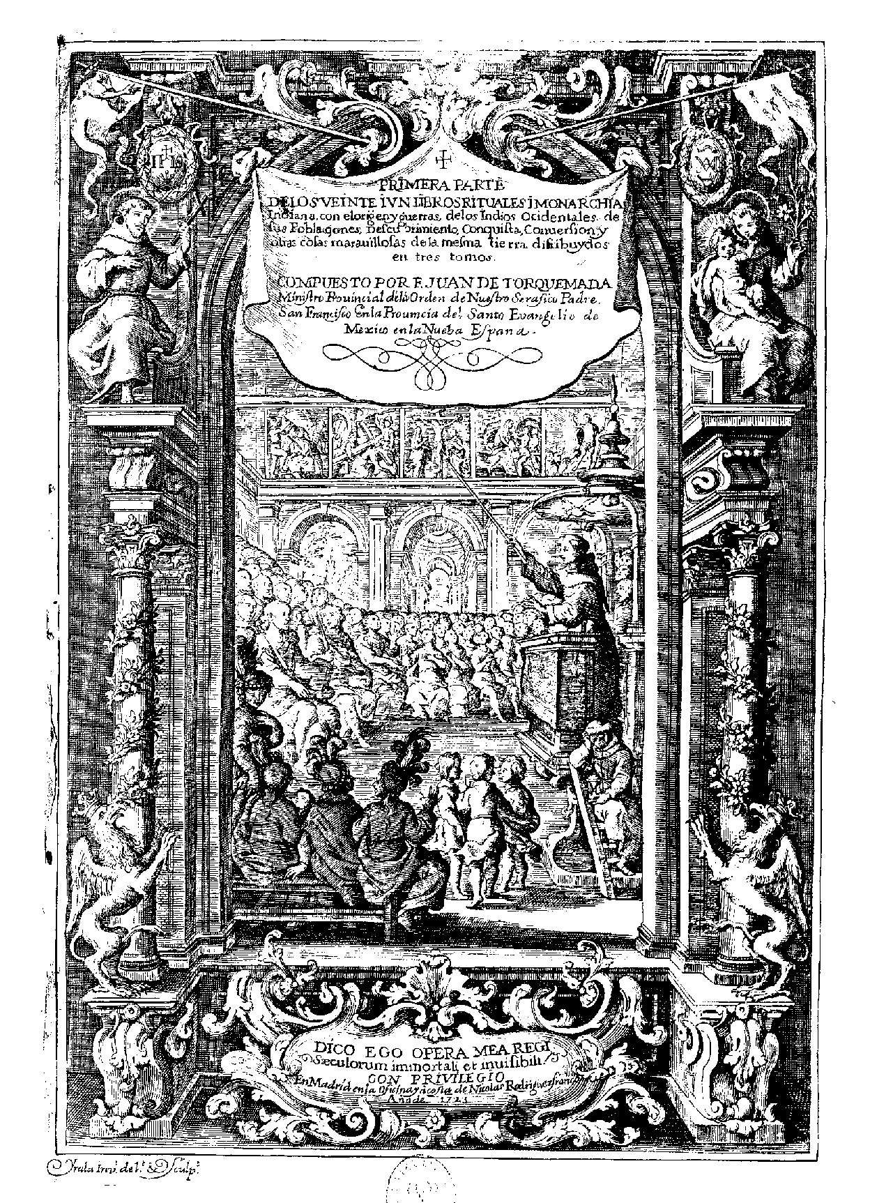 Image of the frontispiece of volume 1 of the second edition (Madrid, 1723) of Fray Juan de Torquemada's Monarchia indiana, first published in Seville in 1615.